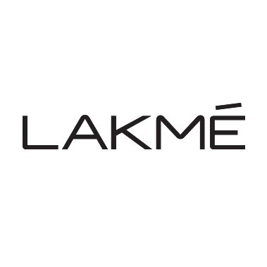 The current logo of Lakmé Cosmetics, copied from their twitter avatar.